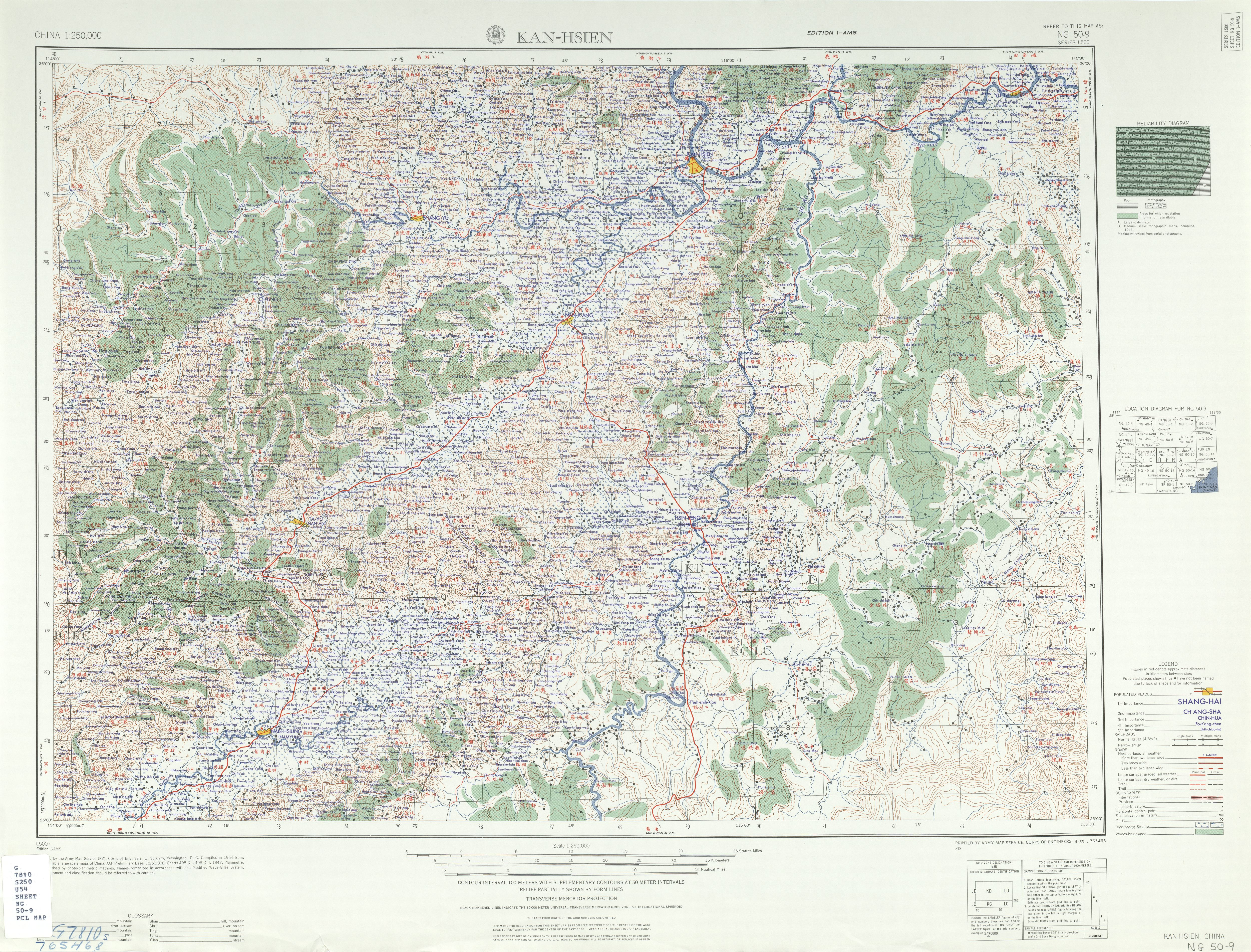 China AMS Topographic Maps